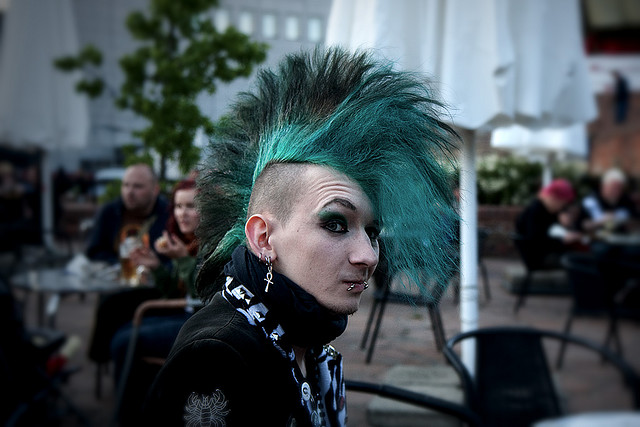 Guy wearing Gothic attire with teal/cyan and black Mohawk